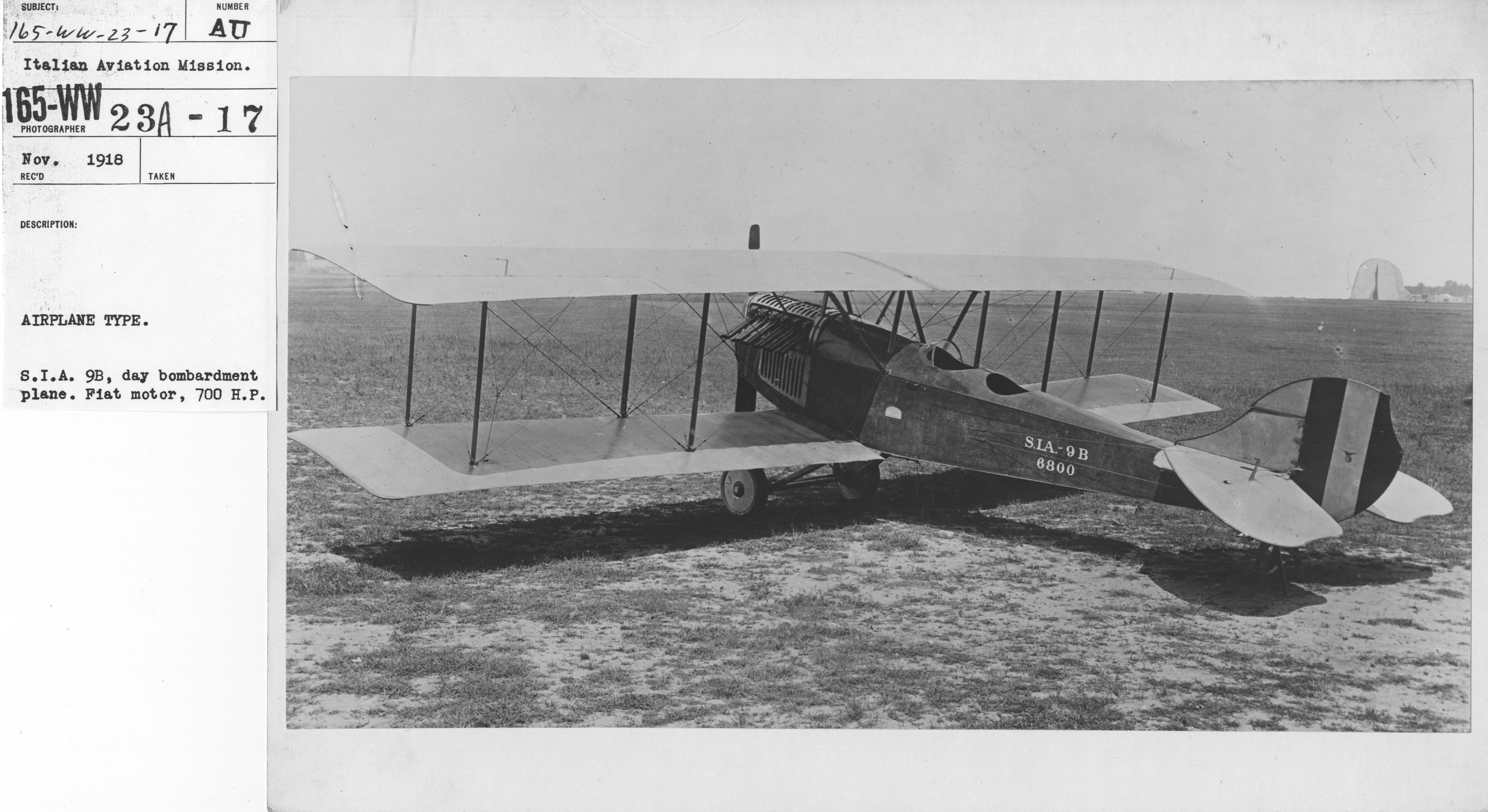 Scope and content: Photographer: Italian Aviation Mission